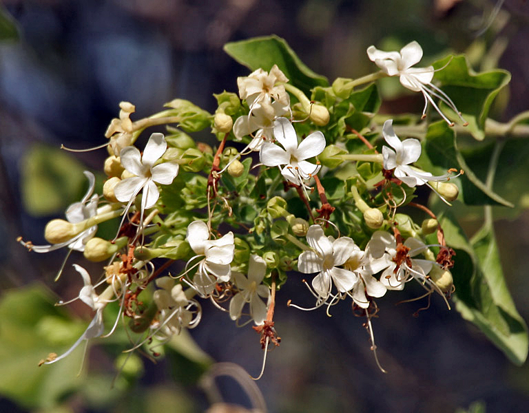 Arni Clerodendrum phlomidis at Sindhrot in Vadodara District of Gujarat, India.